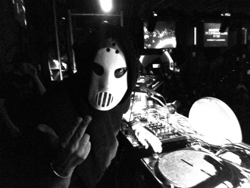 Angerfist in 2014